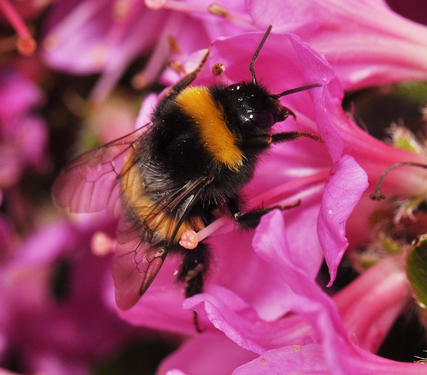 Bumblebee